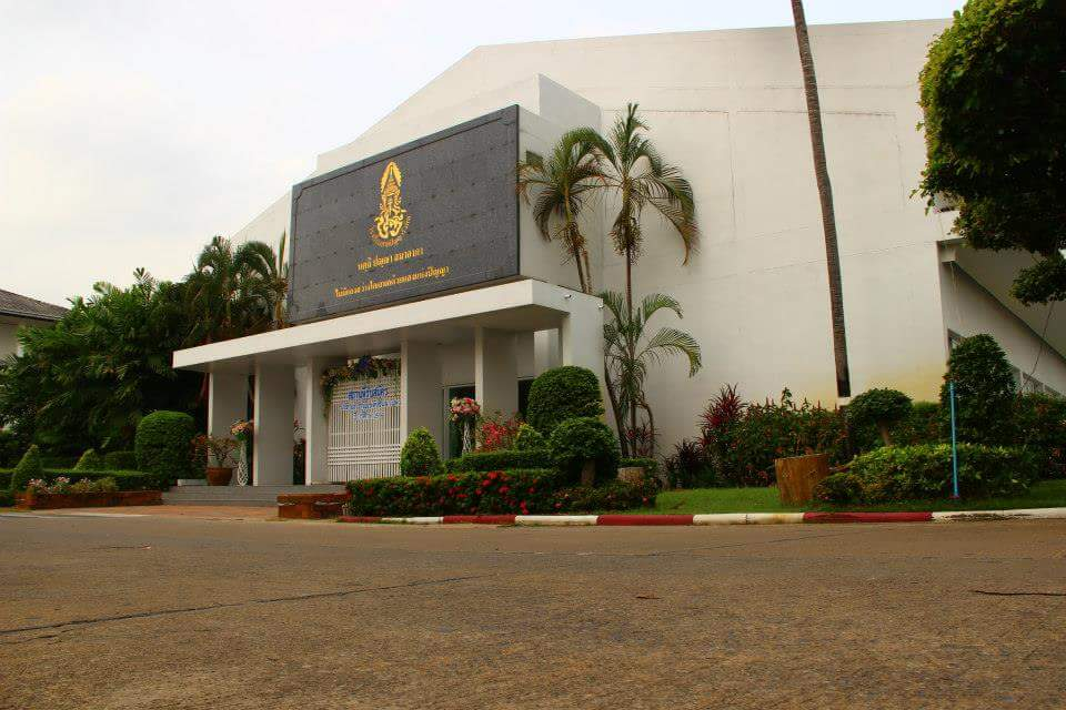 Rongrian Sai Phanya Rangsit, Amphoe Thanyaburi, Pathum Thani Province